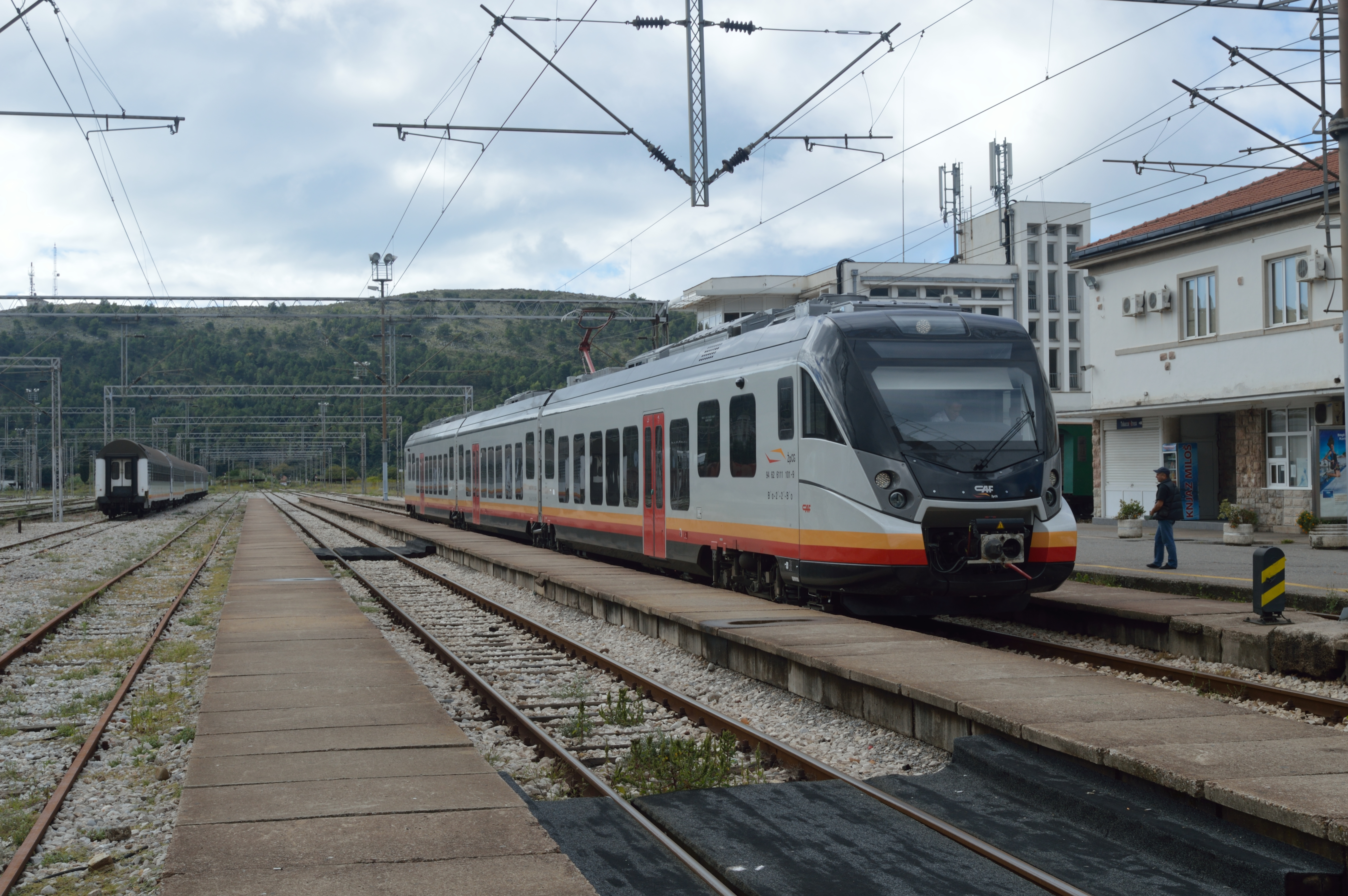 Balkans Rail Trip, Autumn 2013 - Day Nine Final photo of three taken during my visit to Montenegro. All travels done on 1 October 2013 was in the one EMU set asseen here - 6111.101. Possibly a year earlier it would have been all hauled but nevertheless it was a pleasant rail system to visit with staff being friendly and more than happy to allow photographs to be taken. Seen here at the end of the line of the famous route from Beograd to Bar, the Adriatic sea is some distance from the station to the right. Train seen is 6154, 11:35 Bar to Podgorica. To the left in the sidings is the rolling stock use on the overnight train to the Serbian capital, Beograd. During peak seasons extra overnight trains run to carry tourists to the beaches of the Adriatic coast.